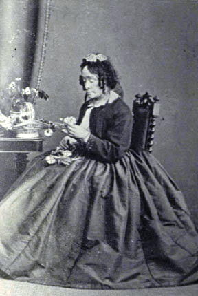 Anne Pratt (1806-1893), British botanical and ornithological illustrator